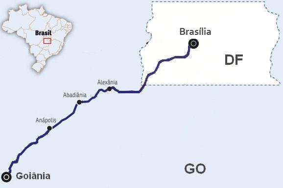 Brazilian federal road 060 (BR-060) between Goiânia and Brasília